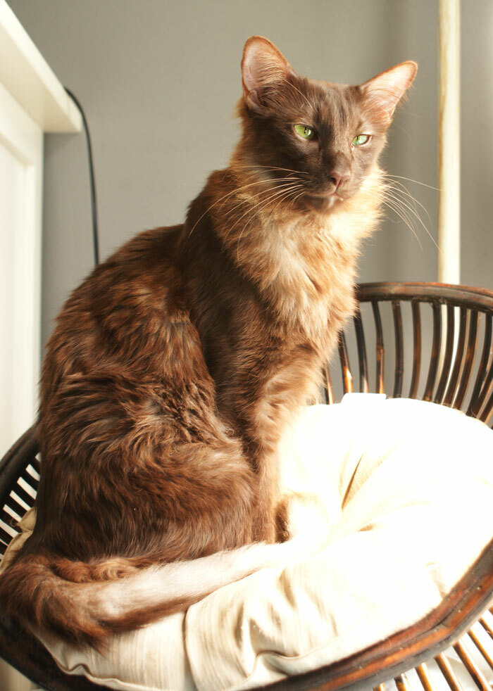 Oriental Longhair (also Javanese or Mandarin) in chocolate smoke